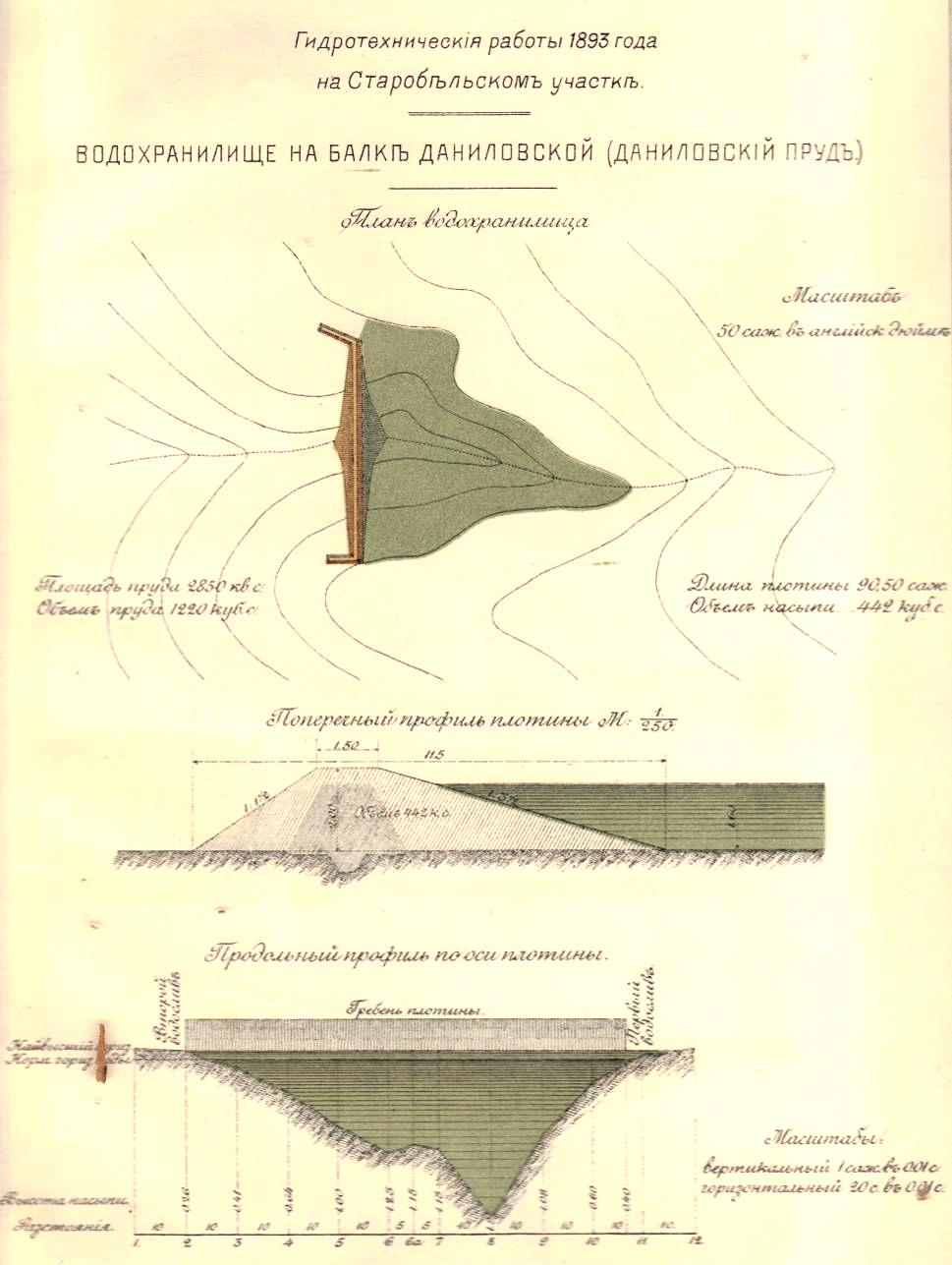 Plan of Danilov pond (Yunitsky zakaznik). Lithography Arngolda, 1894.